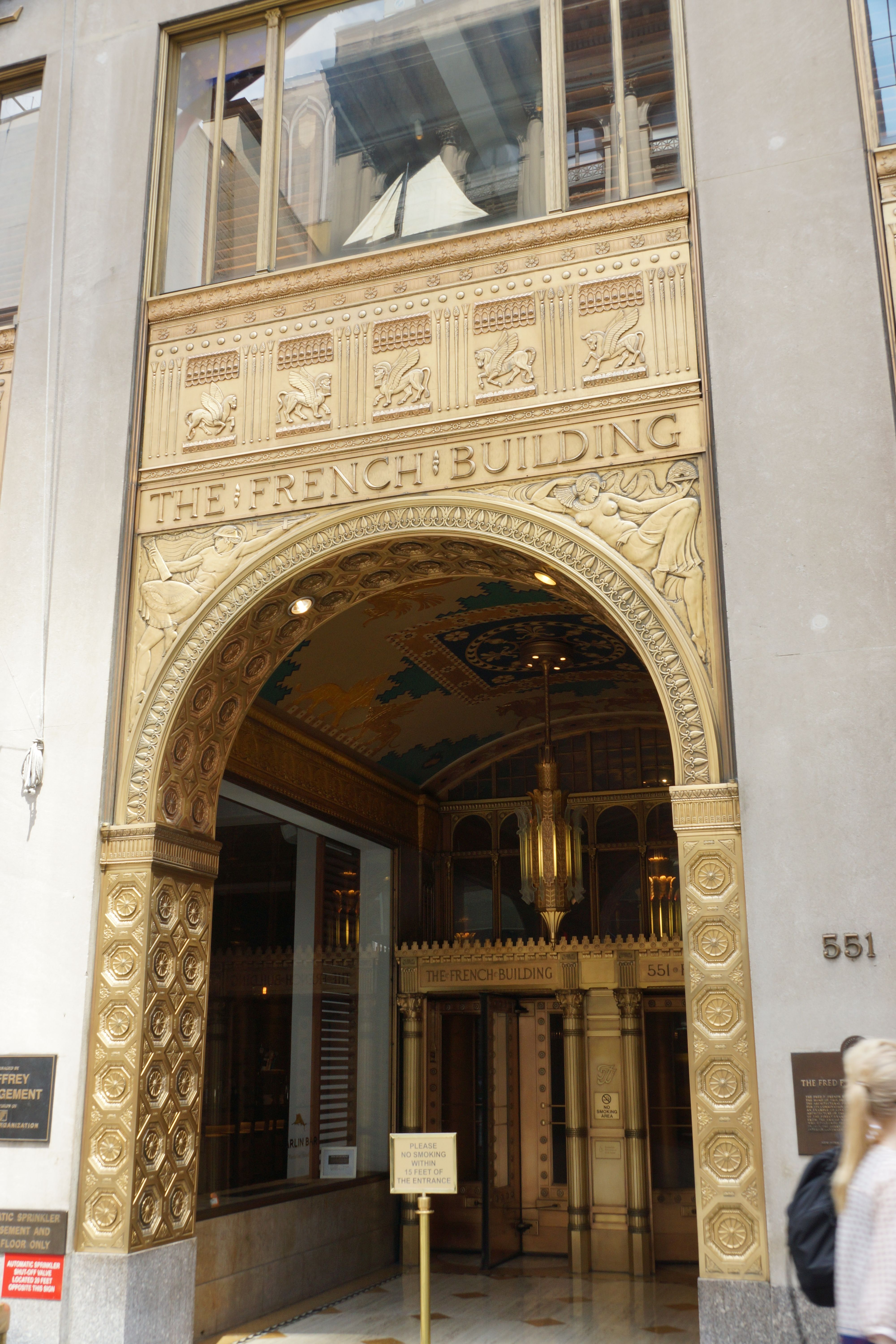 Fred F. French Building